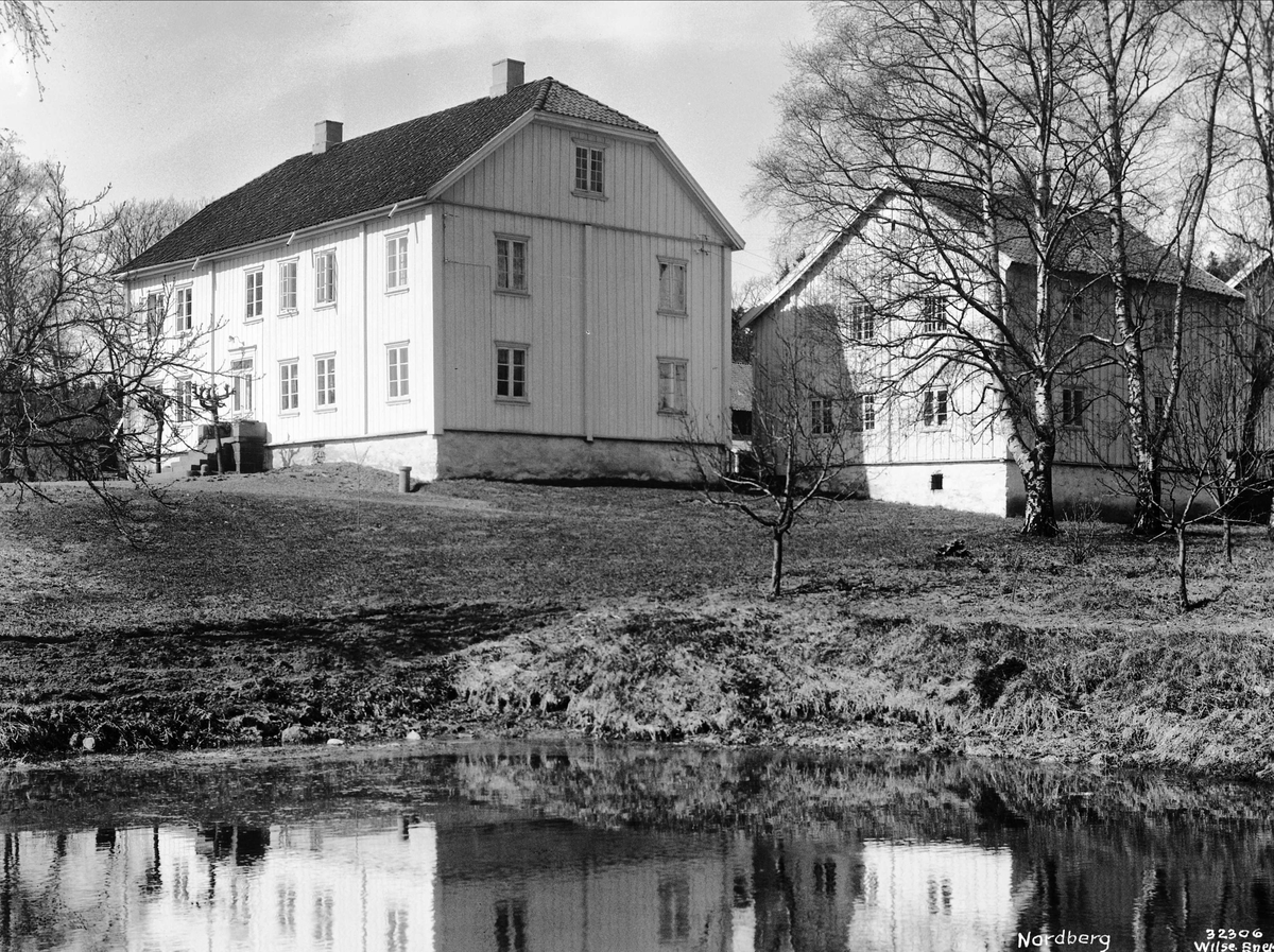 Depicted place: Nordberg farm